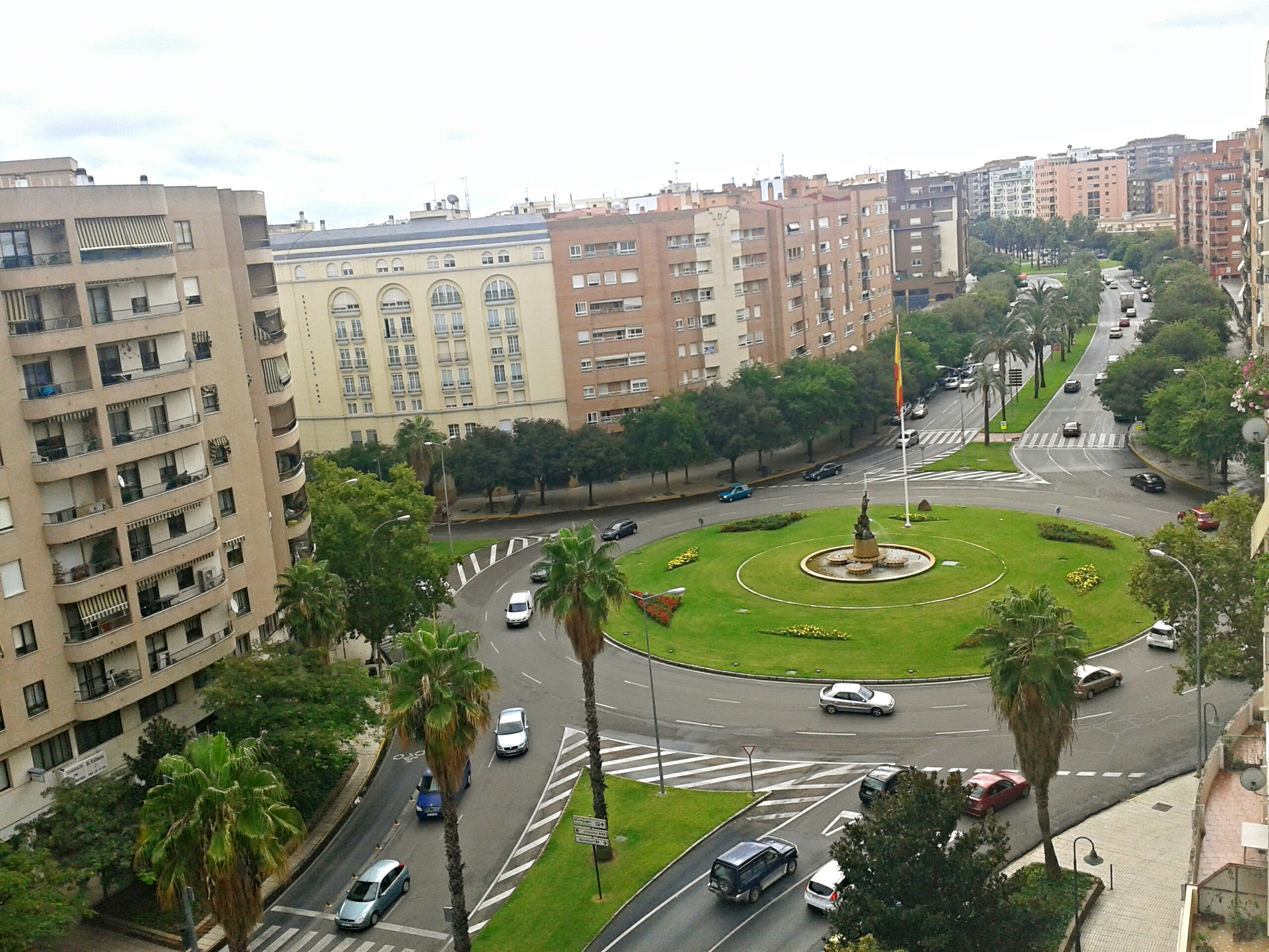 This photograph was taken from a flat in one of the main roads in the city of Badajoz (Spain).